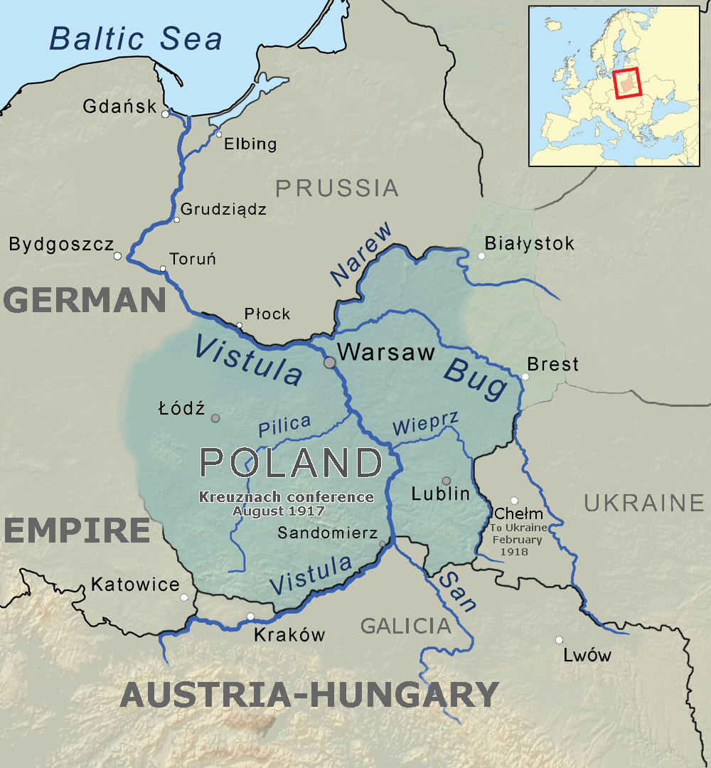 The projected Polish kingdom (Kreuznach conference and cession of Chełm to Ukraine)